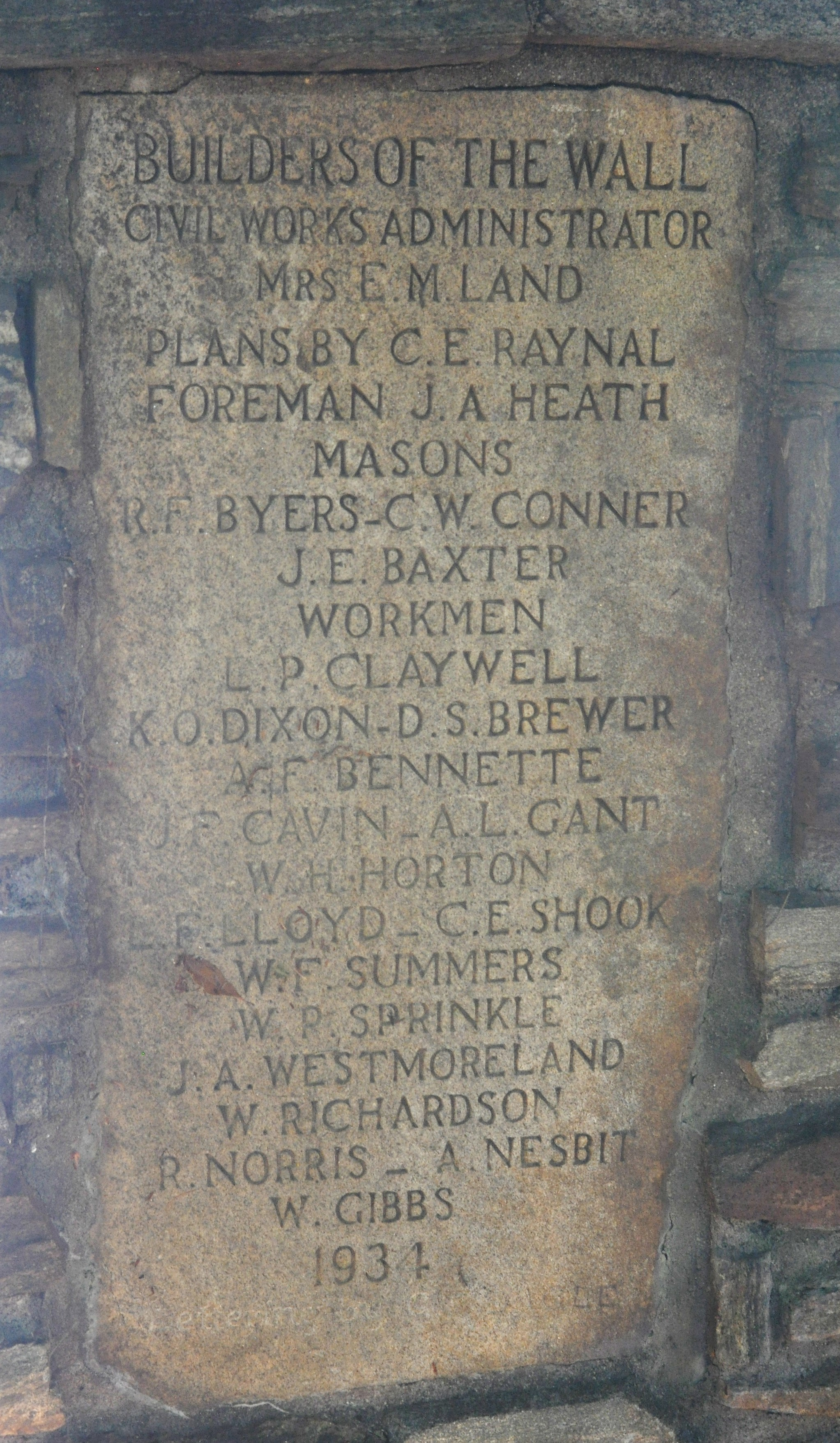 This tablet commemorates the builders of the wall around the Fourth Creek Burial Grounds in 1934; Civil Works Administrator Mrs. E.M. Land; plans by C.E. Raynal; foreman J.A. Heath; Masons: R.F. Byers, C.W. Conner, J.E. Baxter; workmen: L.P. Claywell, K.O. Dixon, D.S. Brewer, A. F. Bennette, J.F. Cavin, A.L. Gant, W.H. Horton, L.F. Lloyd, C.E. Shook, W.F. Summers, W.P. Sprinkle, J.A. Westmoreland, W. Richardson, R. Norris, A. Nesbit, W. Gibbs.